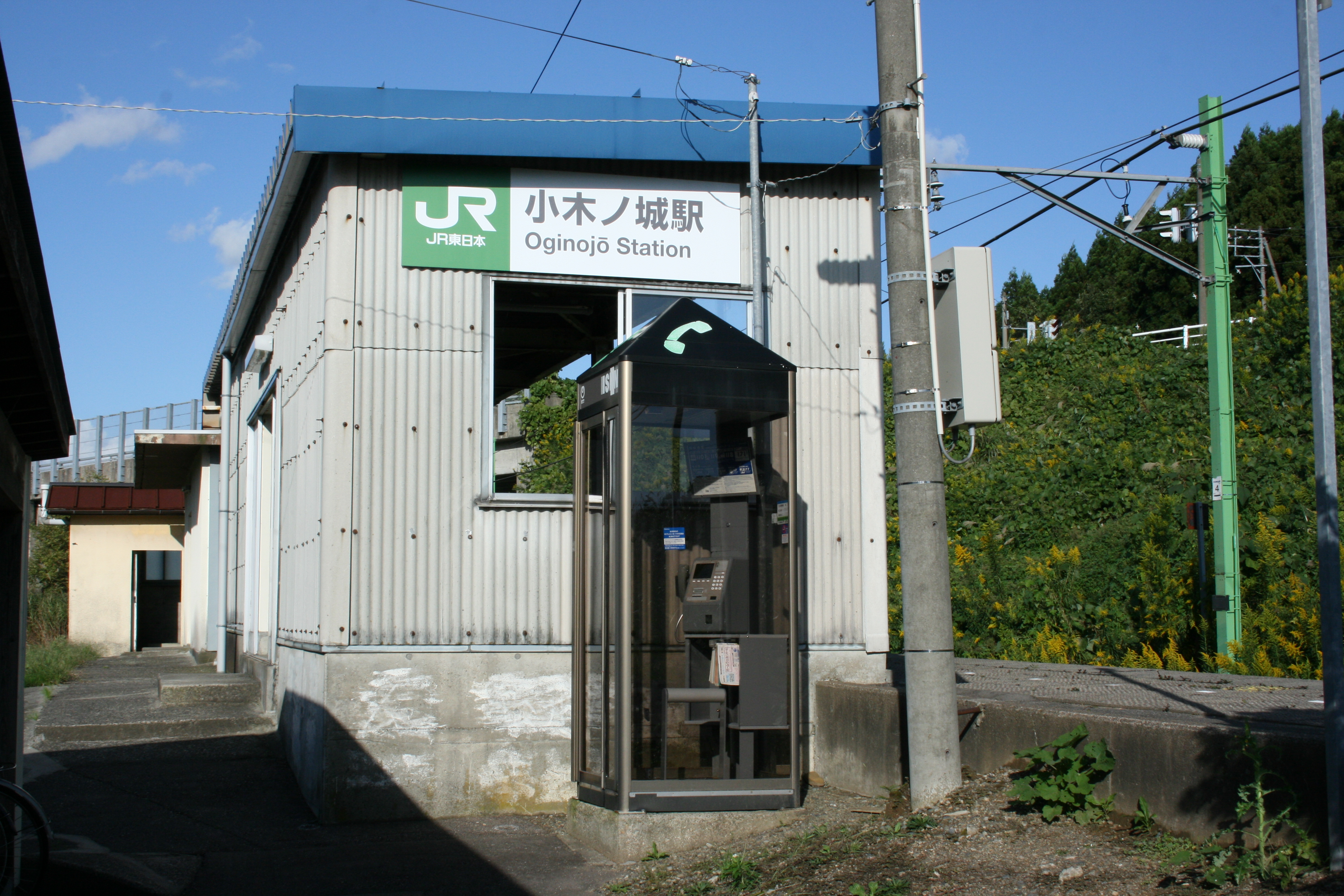 Side view of Oginojo Station on the JR East Echigo Line